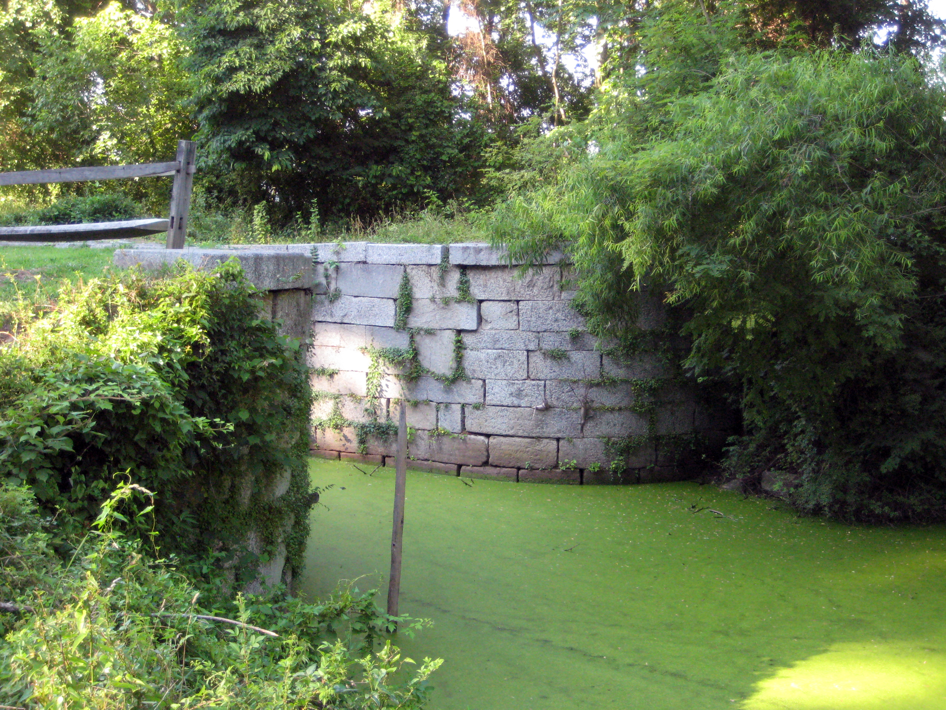 A lock on the Susquehanna and Tidewater Canal, July 1, 2011.